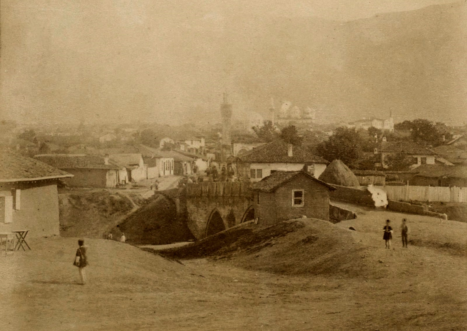 Photograph of Sofia, Bulgaria, c 1881